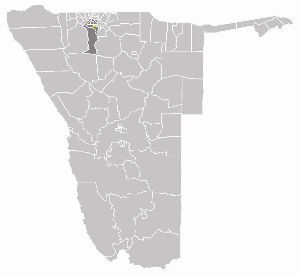 map of the Uukwiyu constituency within the Oshana region, Namibia